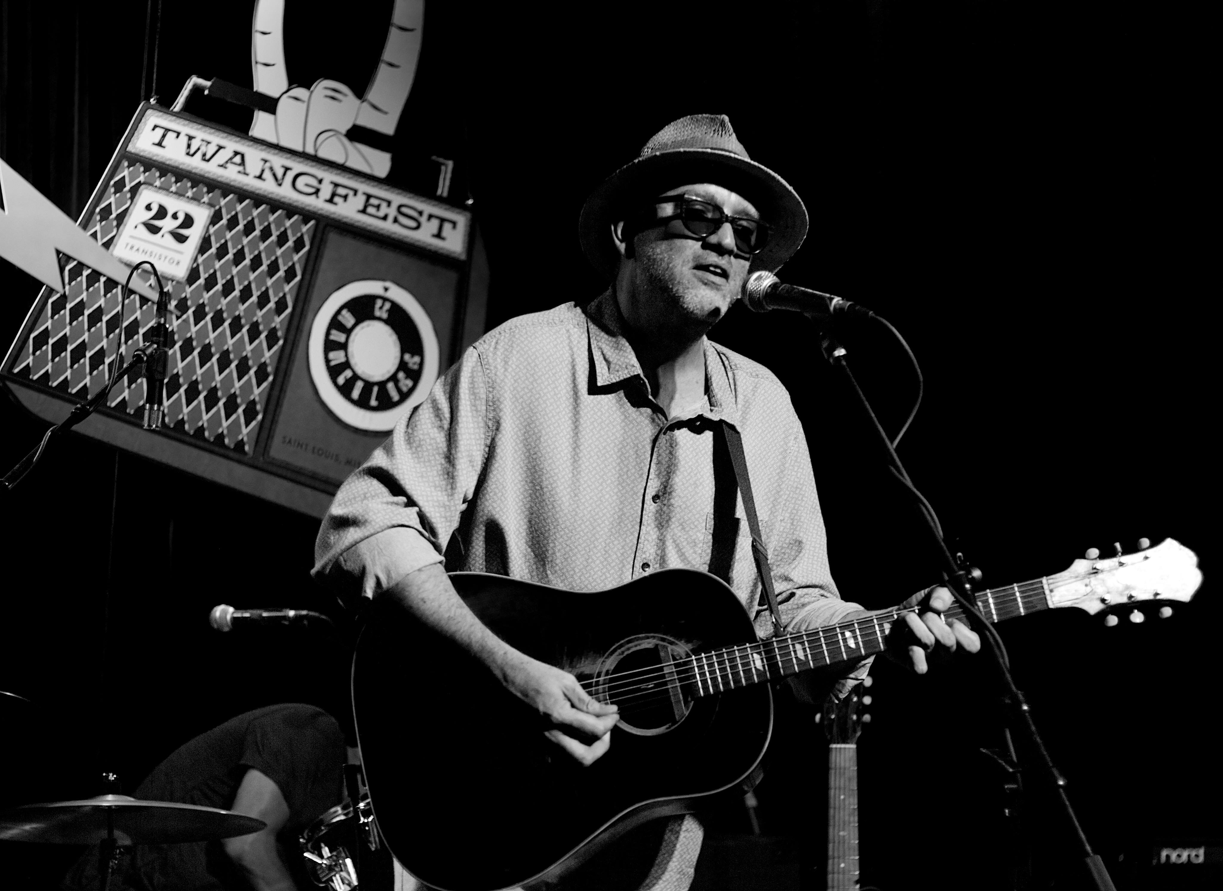 Edward Burch performing at Twangfest 22, 6 June 2018 Photo: Colin Suchland for Twangfest